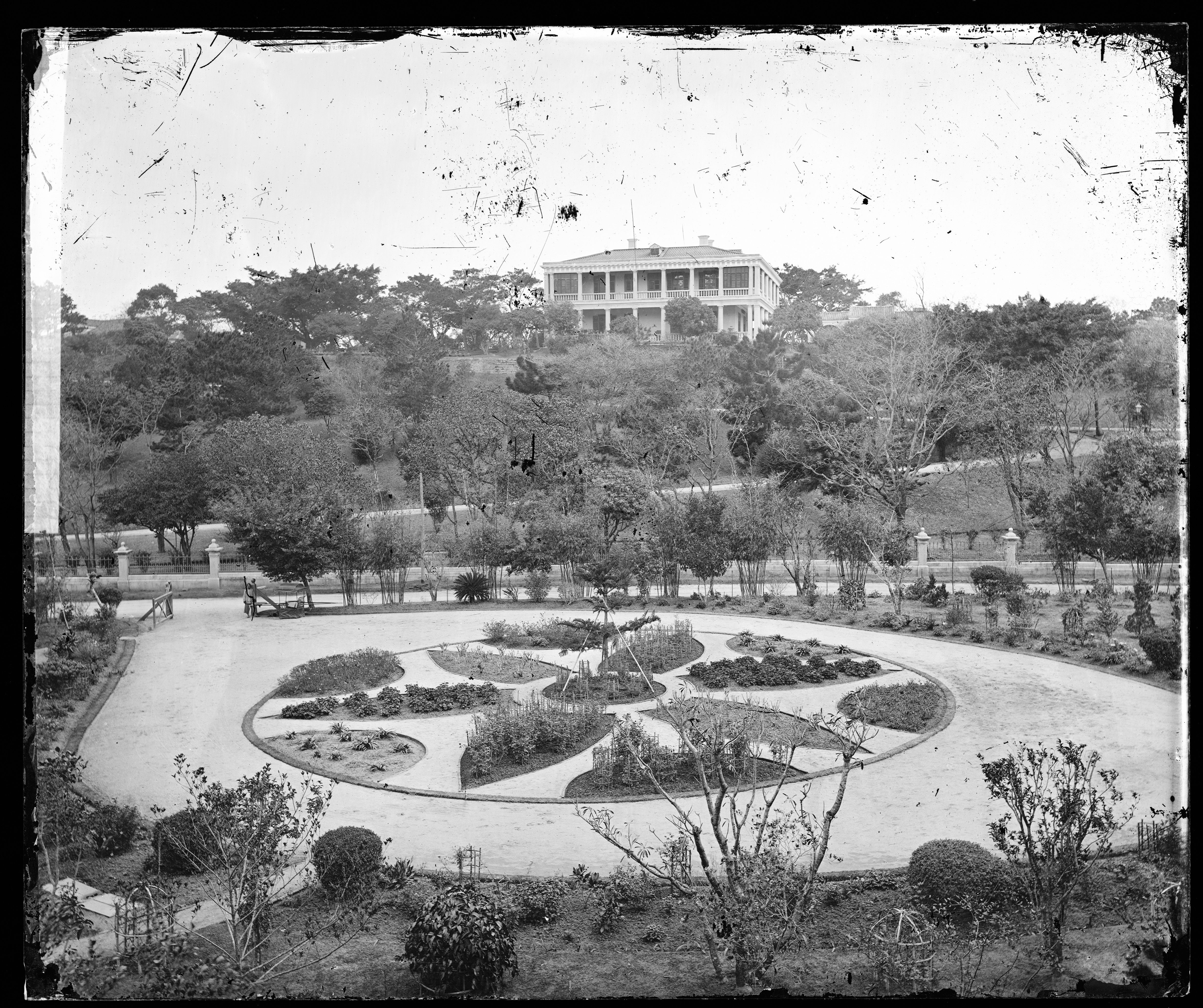 East Point, Hong Kong. Photograph by John Thomson, 1868/1871. Building and garden, situated at East Point, were the property of Jardine, Matheson & Co. The building was the house of a director of this company. Newly planted circular ornamental garden in foreground, colonial house across the street on hill. Iconographic Collections Keywords: J. Thomson